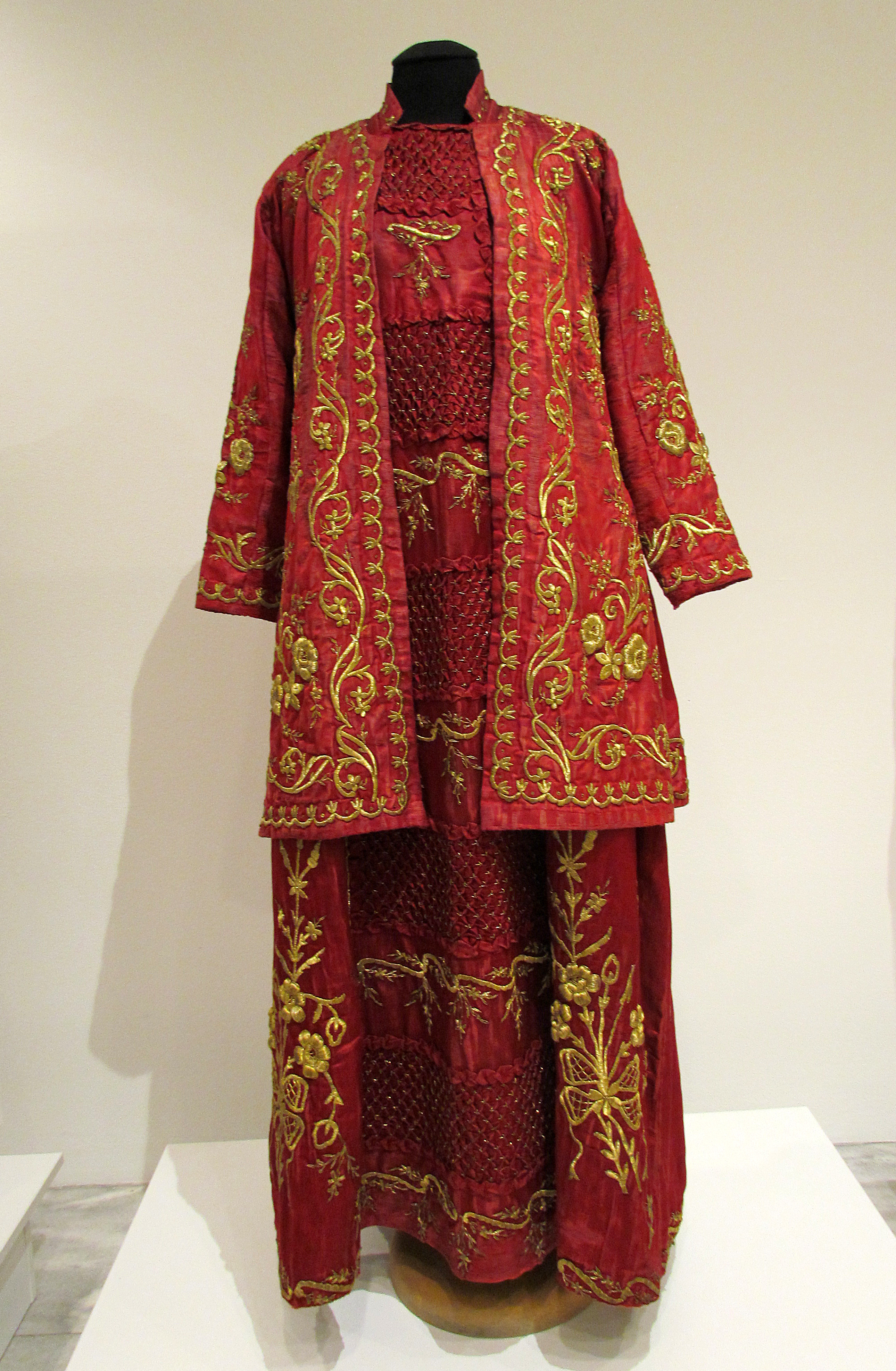 Bindalli dress, late 19th century, silk, metal treads, spangles, cardbord, satin, embroidery, Serbia